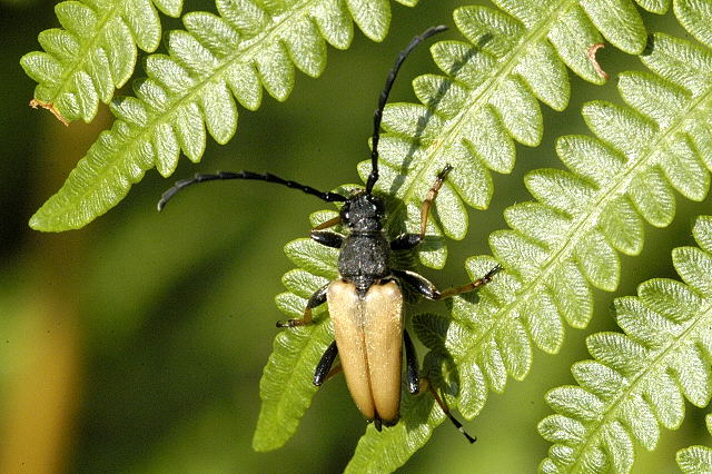 Picture taken in Commanster, Belgian High Ardennes . Species: Stictoleptura rubra male